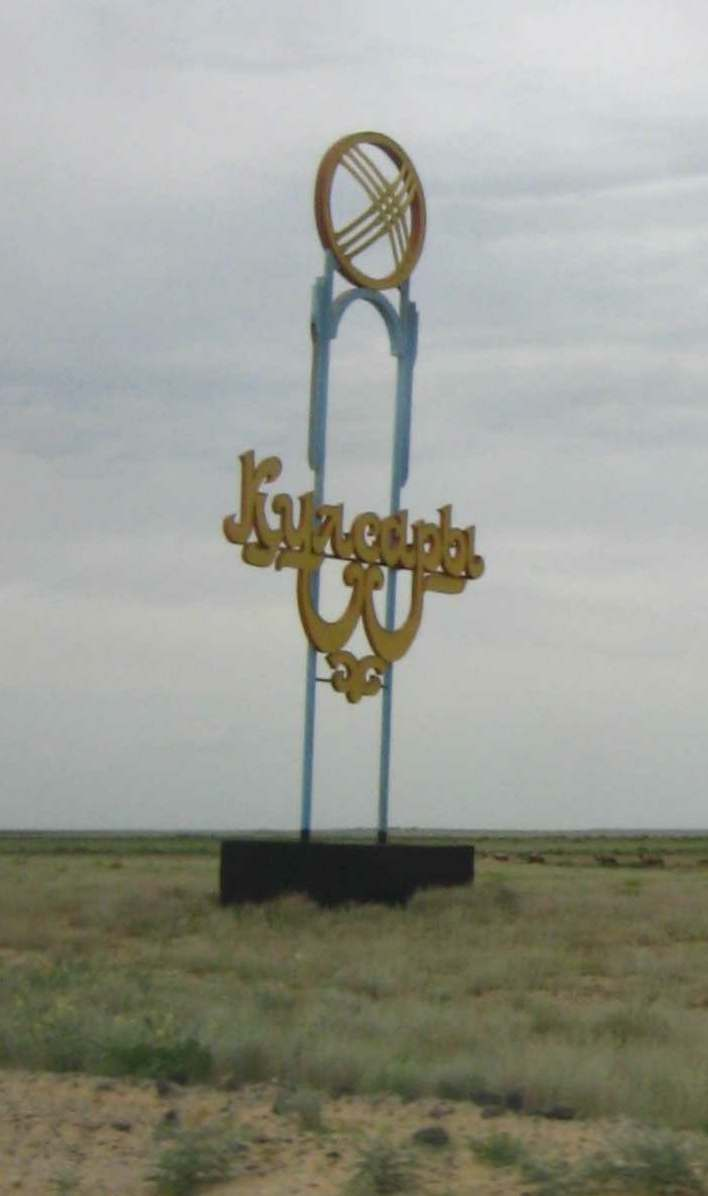 Road sign at hte entrcnce to Kulsary, Atyrau Province, Kazakhstan